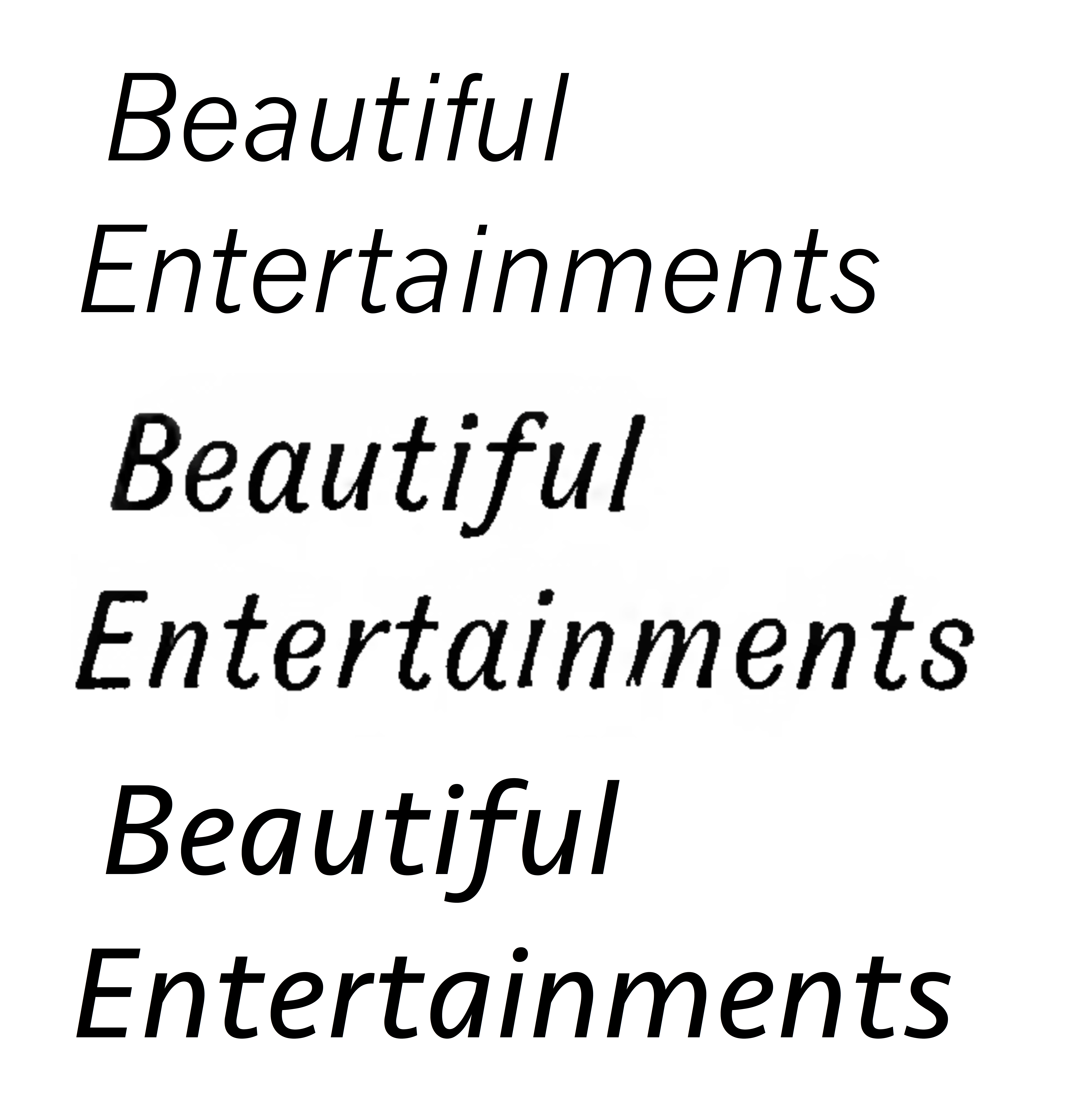 Sans-serif fonts have a choice about italics. They can slant the text (minimalist, simple), which is called oblique type or they can have a true italic, as most serif fonts do, which looks a bit like handwriting. At top is News Gothic, a sans-serif from 1908 with an oblique italic. At centre is Gothic Italic No. 124 by American Type Founders, a very eccentric design from the 1890s with a true italic, as far as I know never digitised. Its italic resembles Didone fonts of the period. At bottom is a modern humanist sans-serif, Seravek, which also has a true italic, this time slightly more calligraphic. The image of the Gothic Italic is taken from page 340 of this ATF specimen booklet from 1897, which is in the public domain.